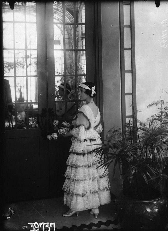 Mathilde Kschessinska in the winter garden